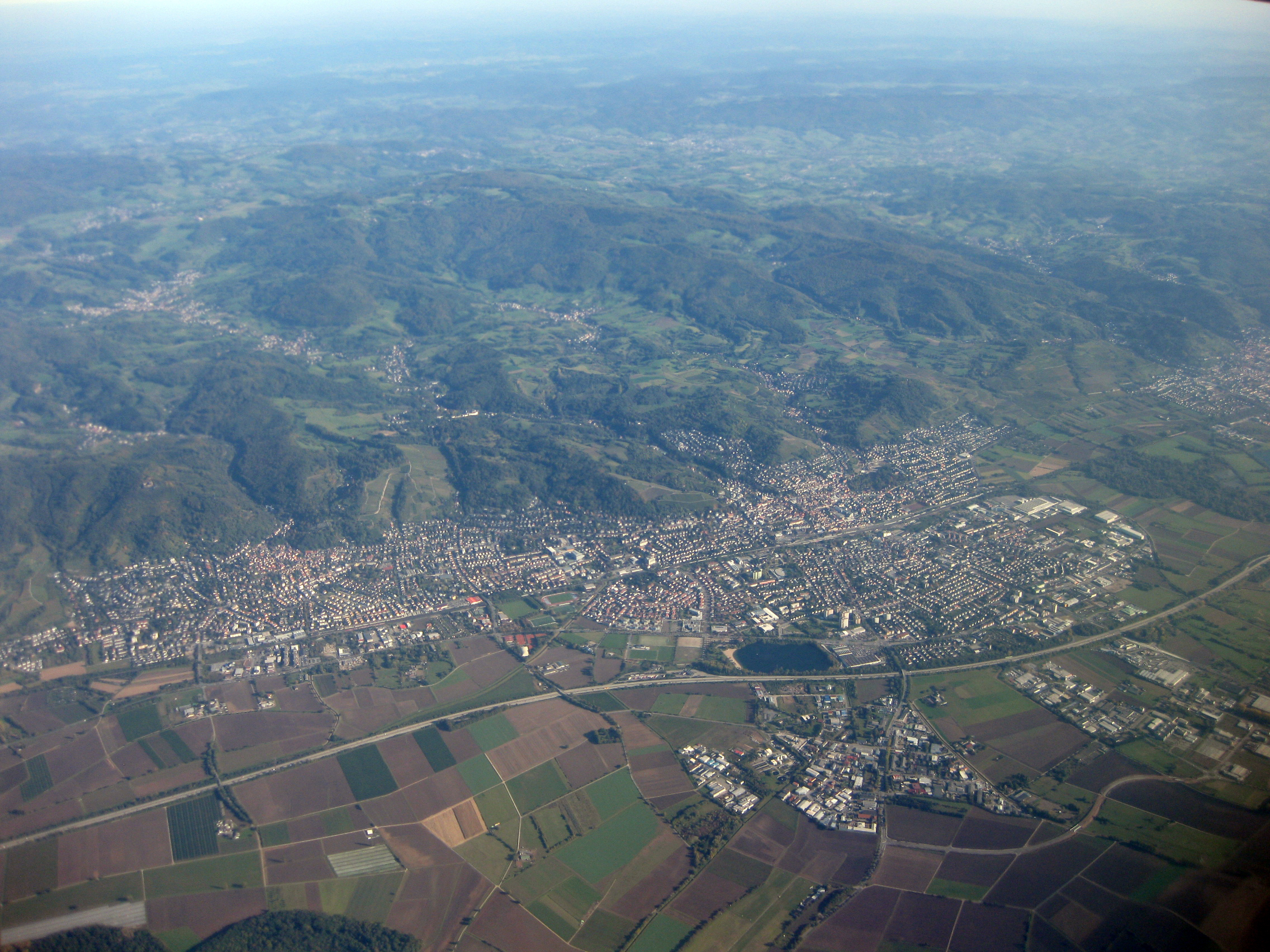 Aerial photography of Bensheim, from West to East